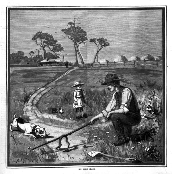 Photo of Streeton's first published black and white work